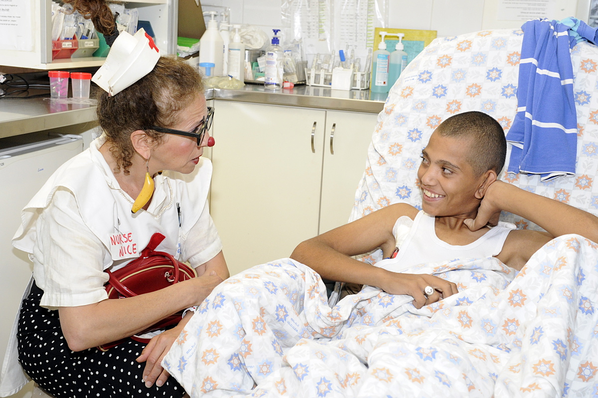 Medical clown Hilary Chaplain at Shaare Zedek hospital_No.109